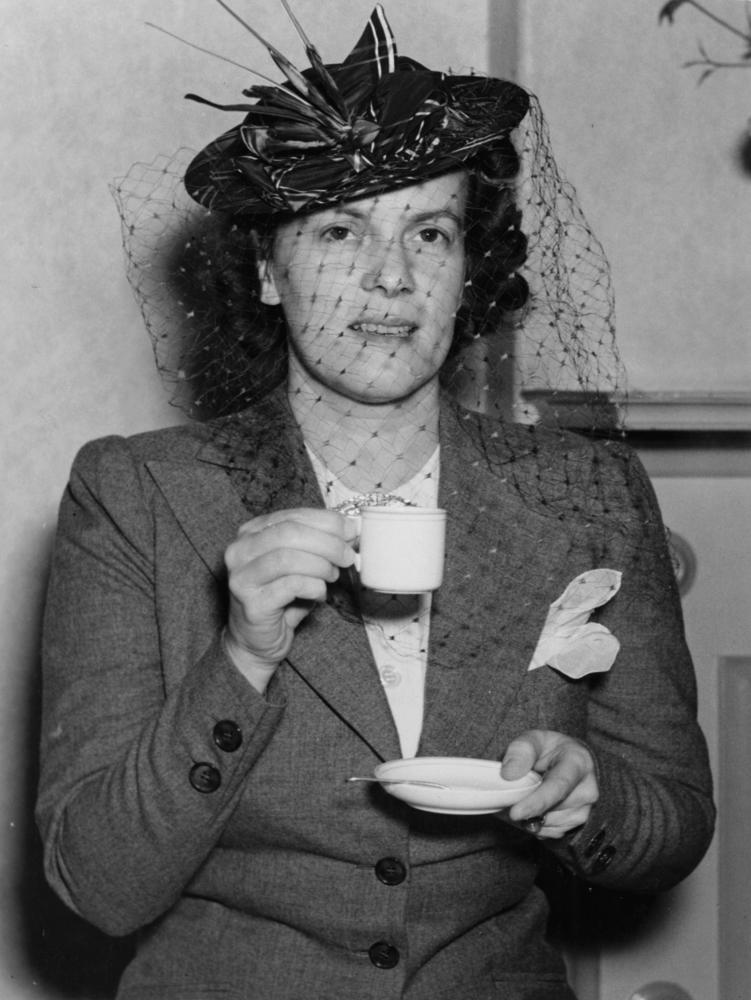 Mildred Crooks, Brisbane, 1939. Mildred Crooks, wife of American Opera tenor Richard Crooks.